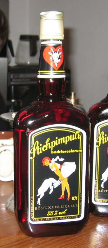 Stichpimpuli bockforcelorum, cordial